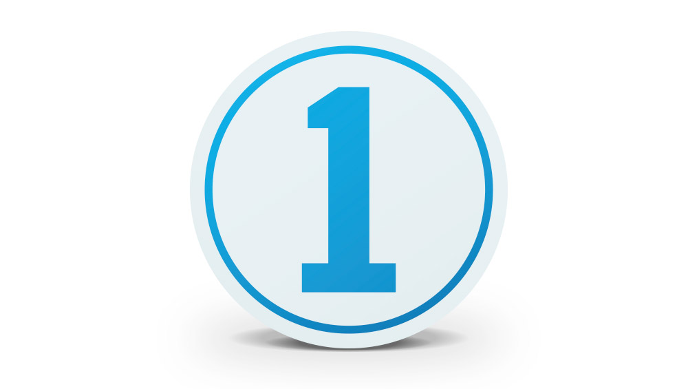 Capture One Logo